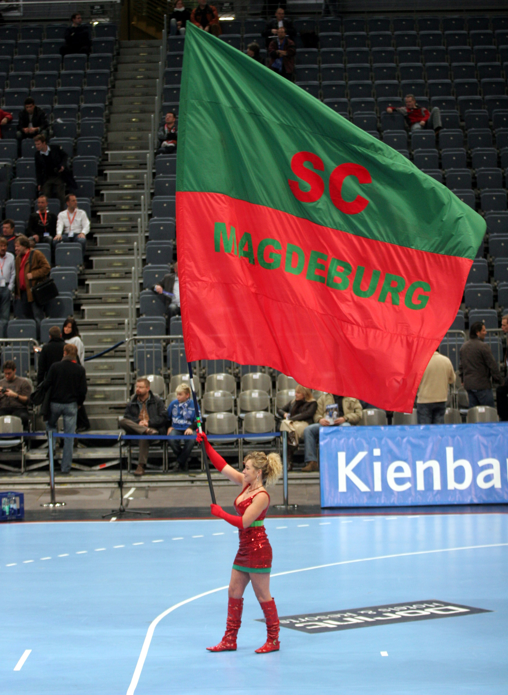 A Fan with a flag of SC Magdeburg (Germany), prior a Bundesliga match. November 19th, 2008 in Lanxess Arena of Cologne